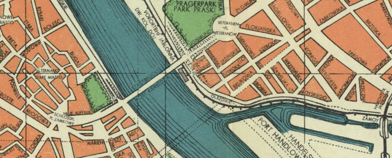 Olszowa Street on the plan of the town of Warsaw, 1941